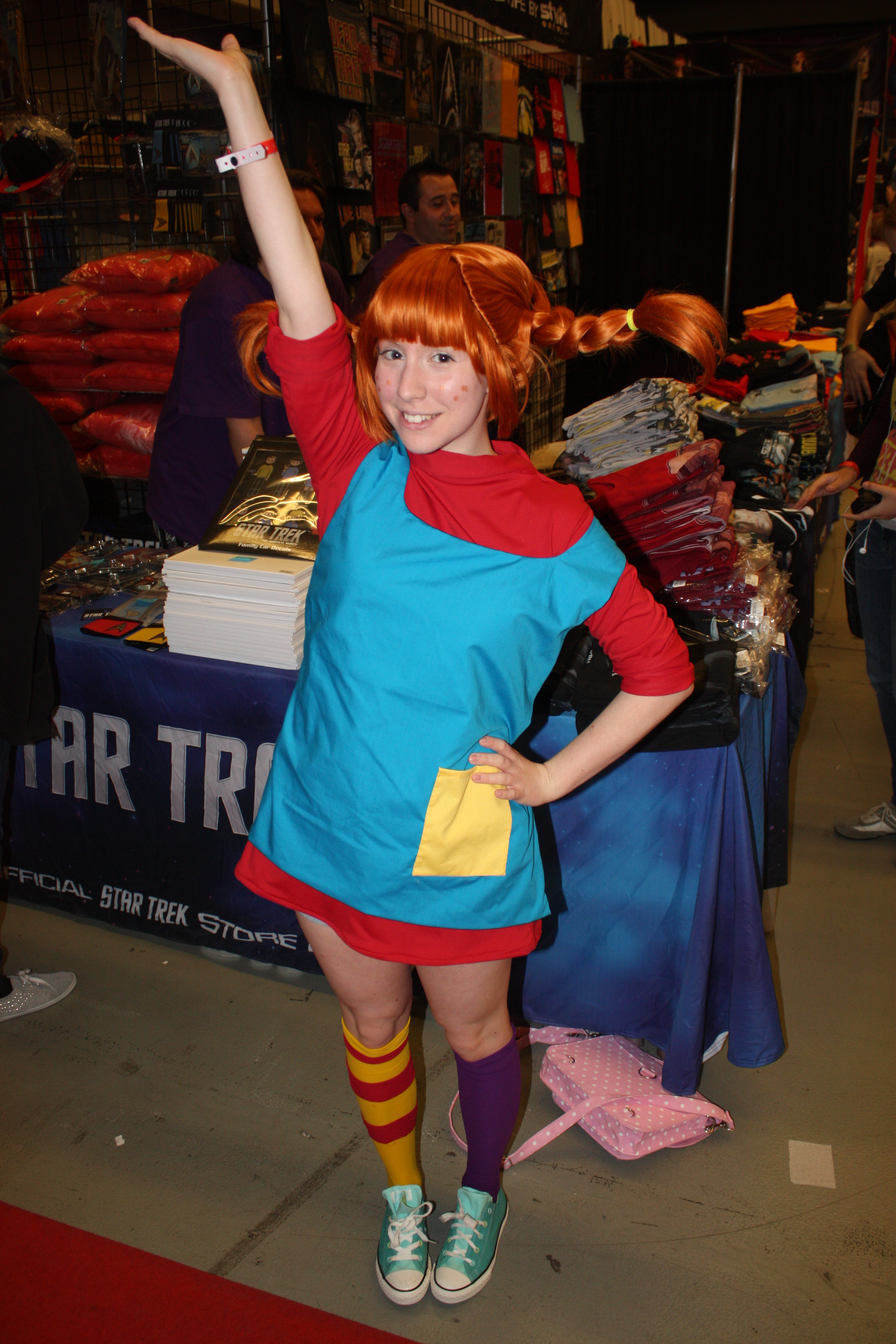 Montreal Comiccon 2014: Pippi Longstocking